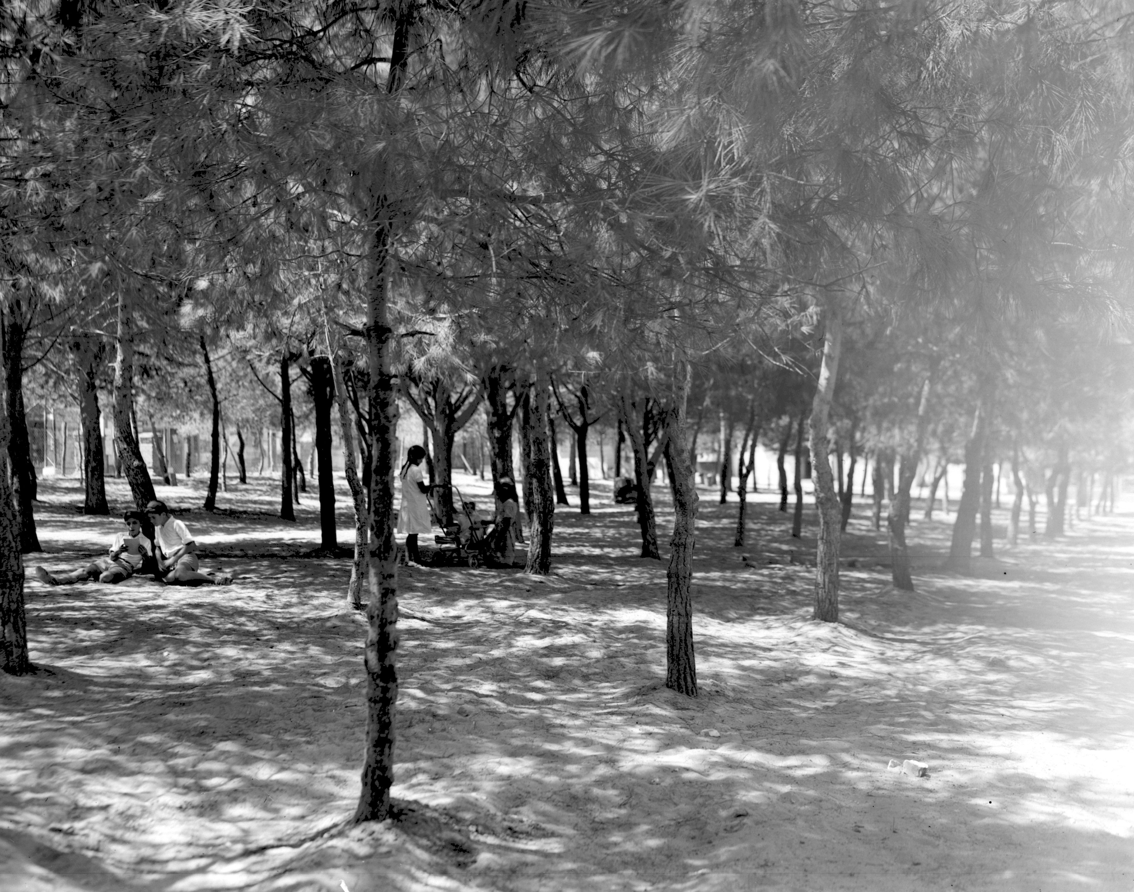 PARK ON SHENKIN STRREET IN TEL AVIV. פארק ברחוב שנקין בתל אביב.